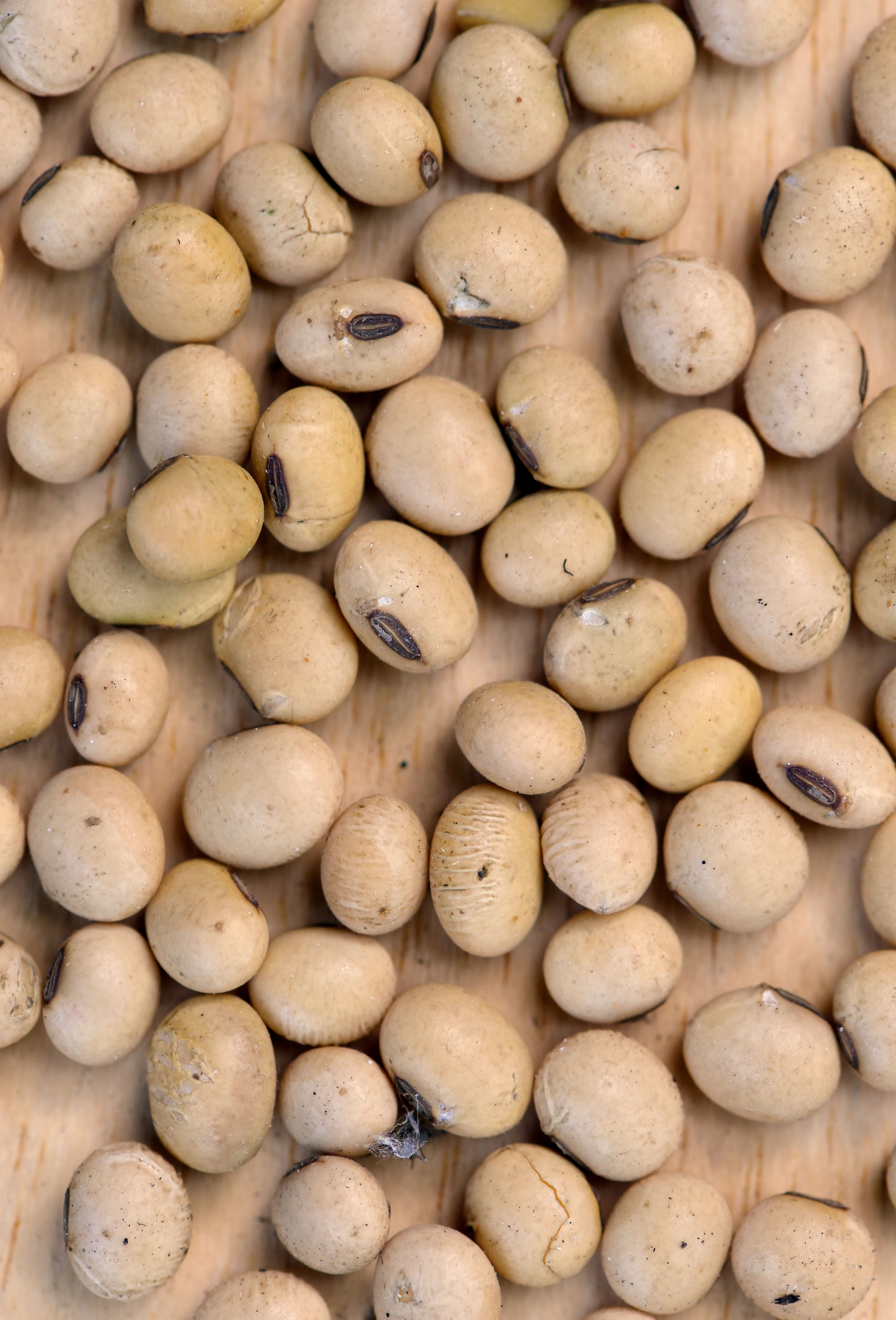 Glycine max 'Ádsoy' inoculated with Hicoat superextender Bradyrhizobium japonicum. Thousand-kernel weight-204 gram, length: 8-9 mm